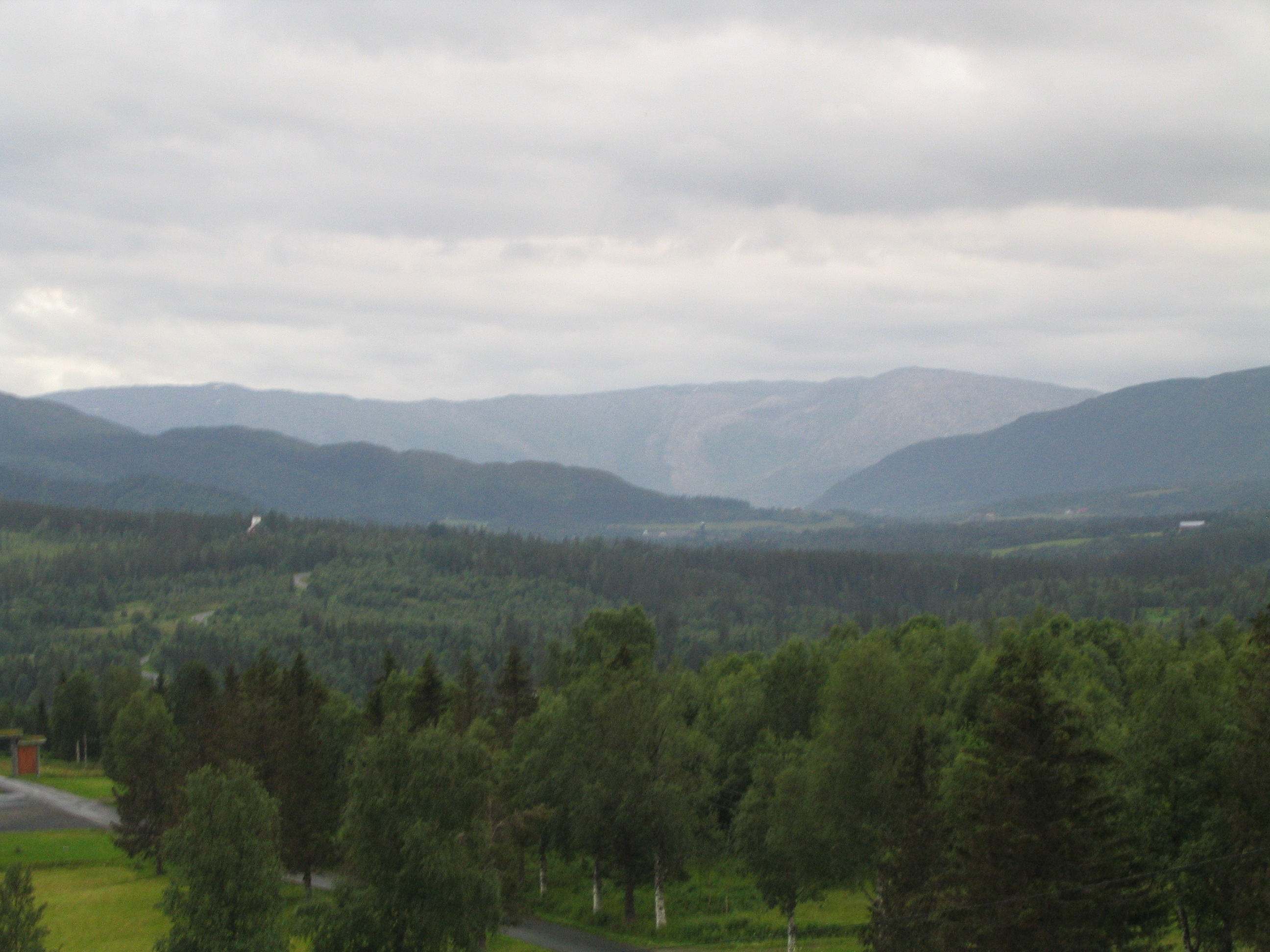 Drevjedalen in Vefsn, Norway. Picture taken by user:ZorroIII on 2006-07-15.